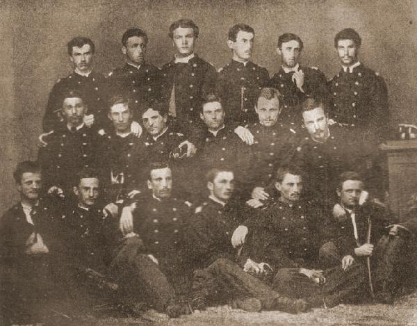 Serbian army cadets class 1861-66